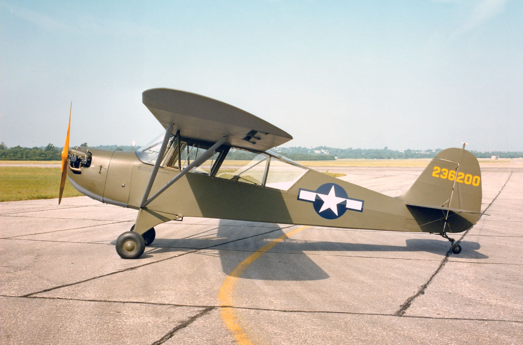 Left view of Aeronca L-3 "Grasshopper" of National Museum of the USAF collection.